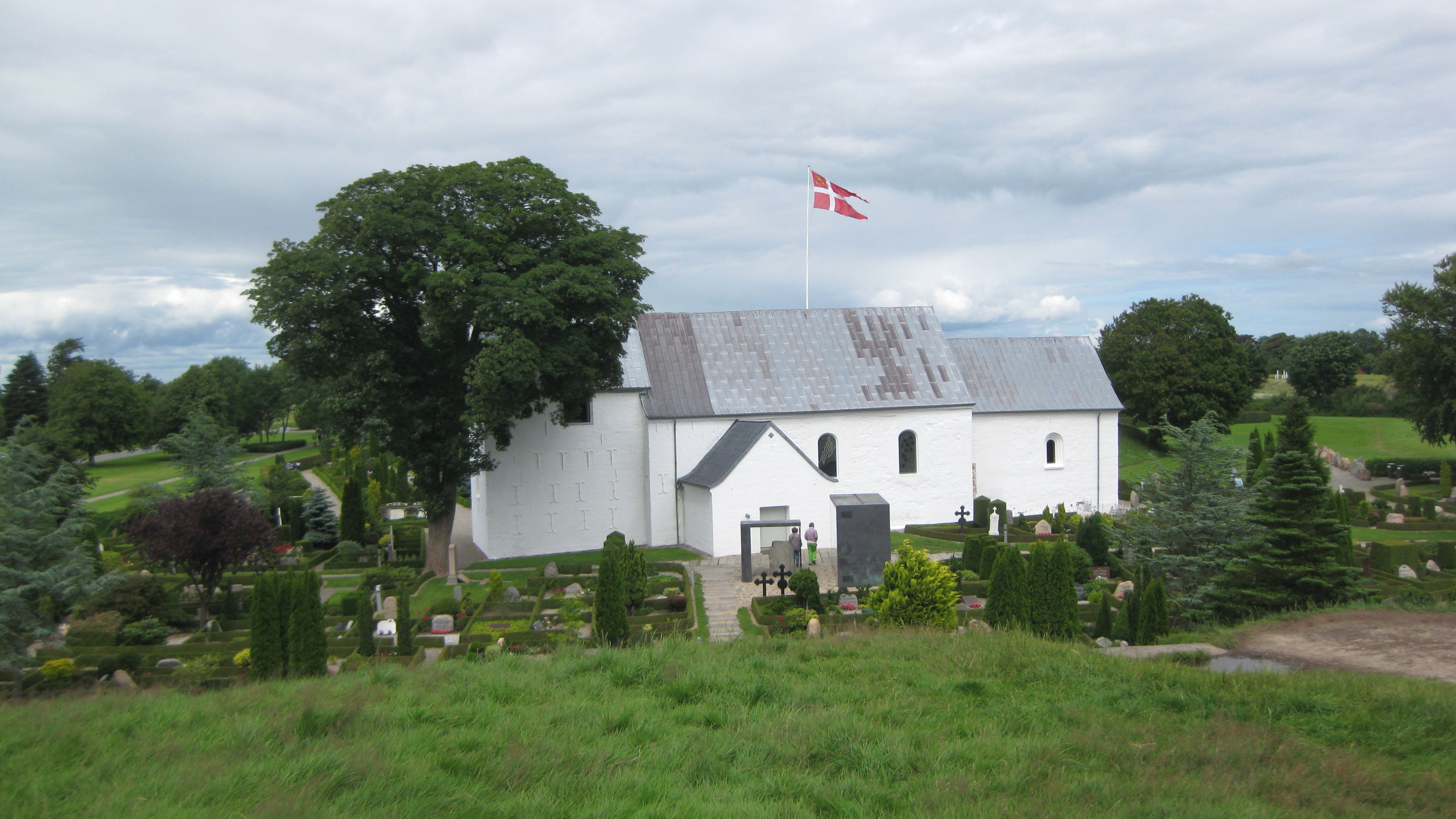 The church "Jelling Kirke" seen from the burial mound "Gorms Høj". The place is located in the small town "Jelling" west of Vejle in South-Central Jutland, south Denmark.